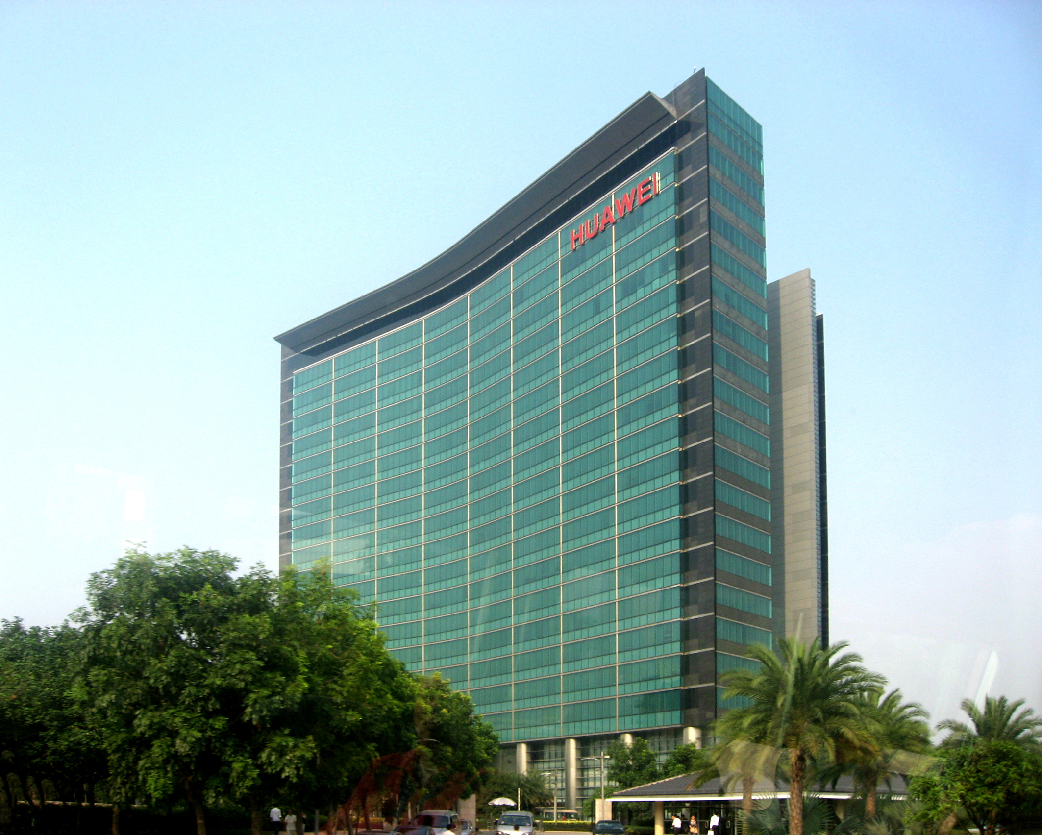 Huawei Technology in Shenzhen, China